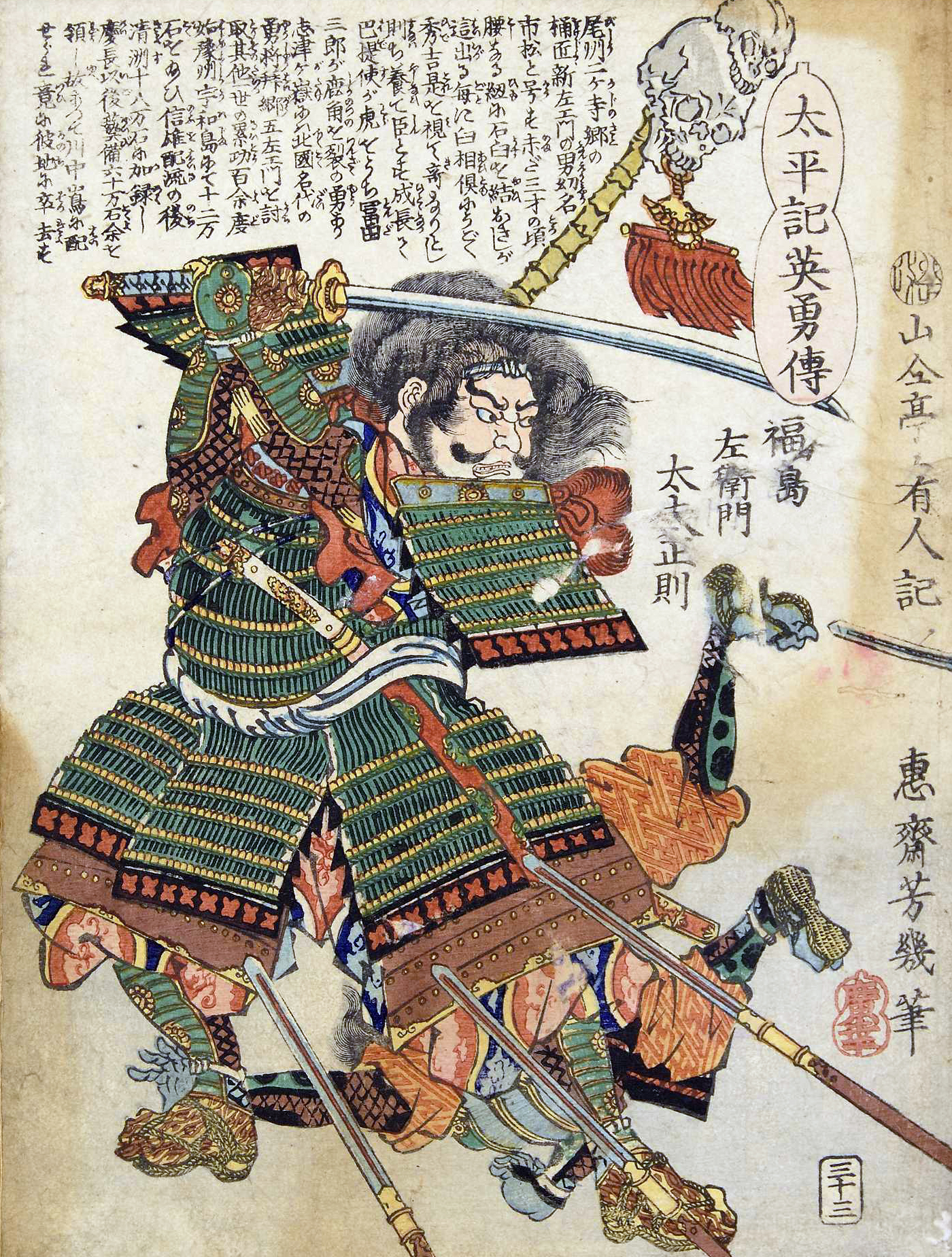 Ukiyo-e of daimyo Fukushima Masanori of the Hiroshima domain (1561 – August 26, 1624).